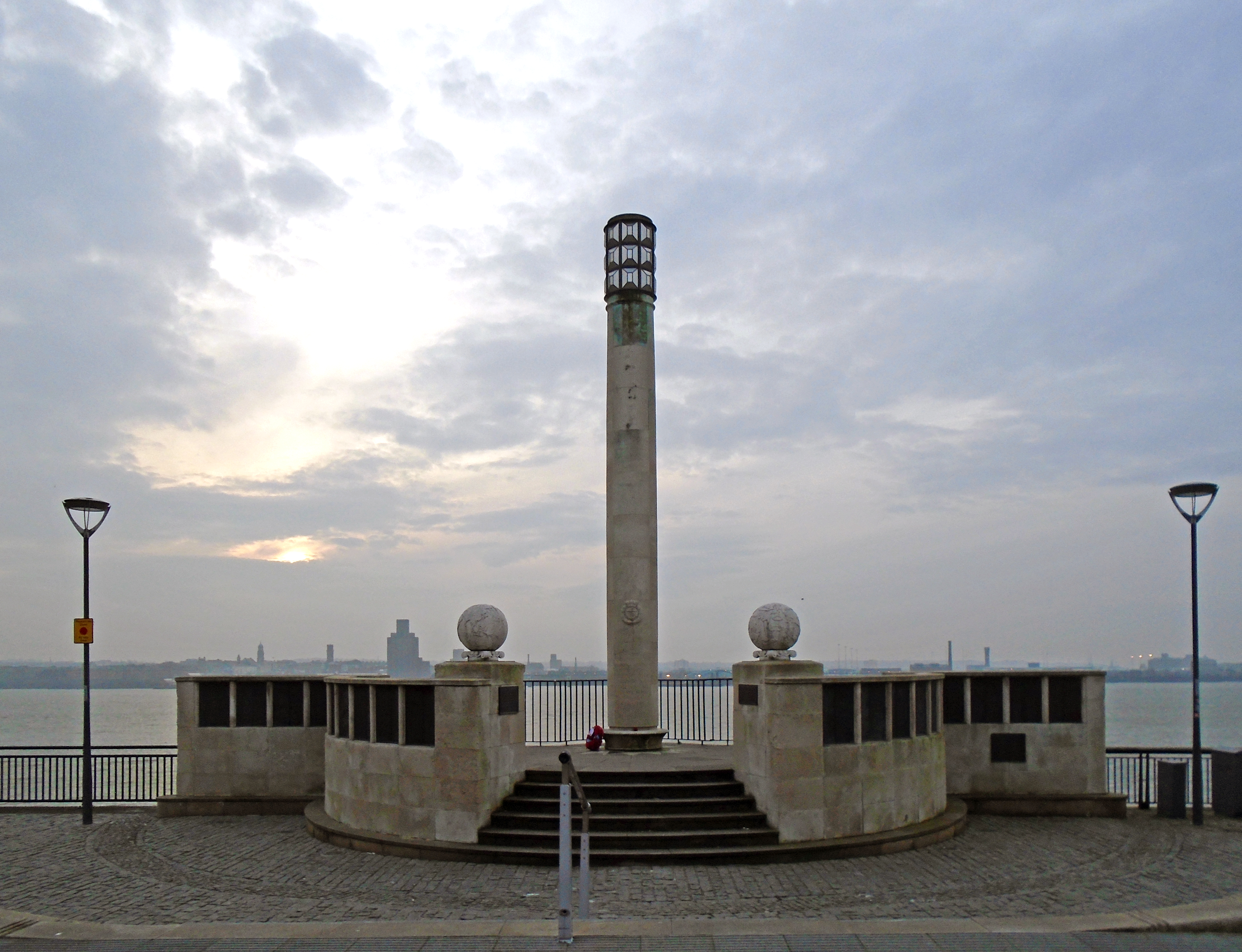 View of the memorial from the front